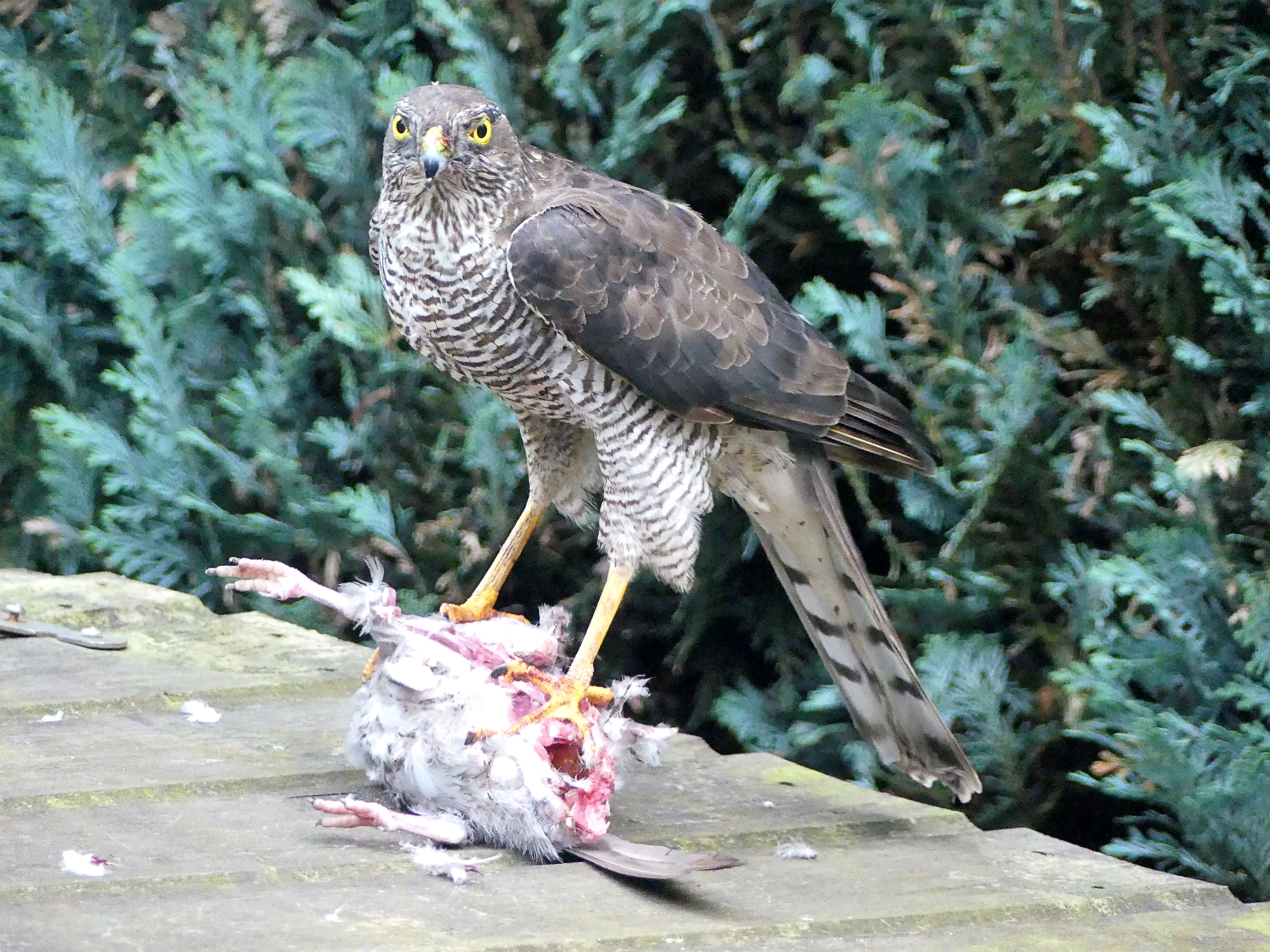 Sparrowhawk Accipiter nisus strikes a pigeon